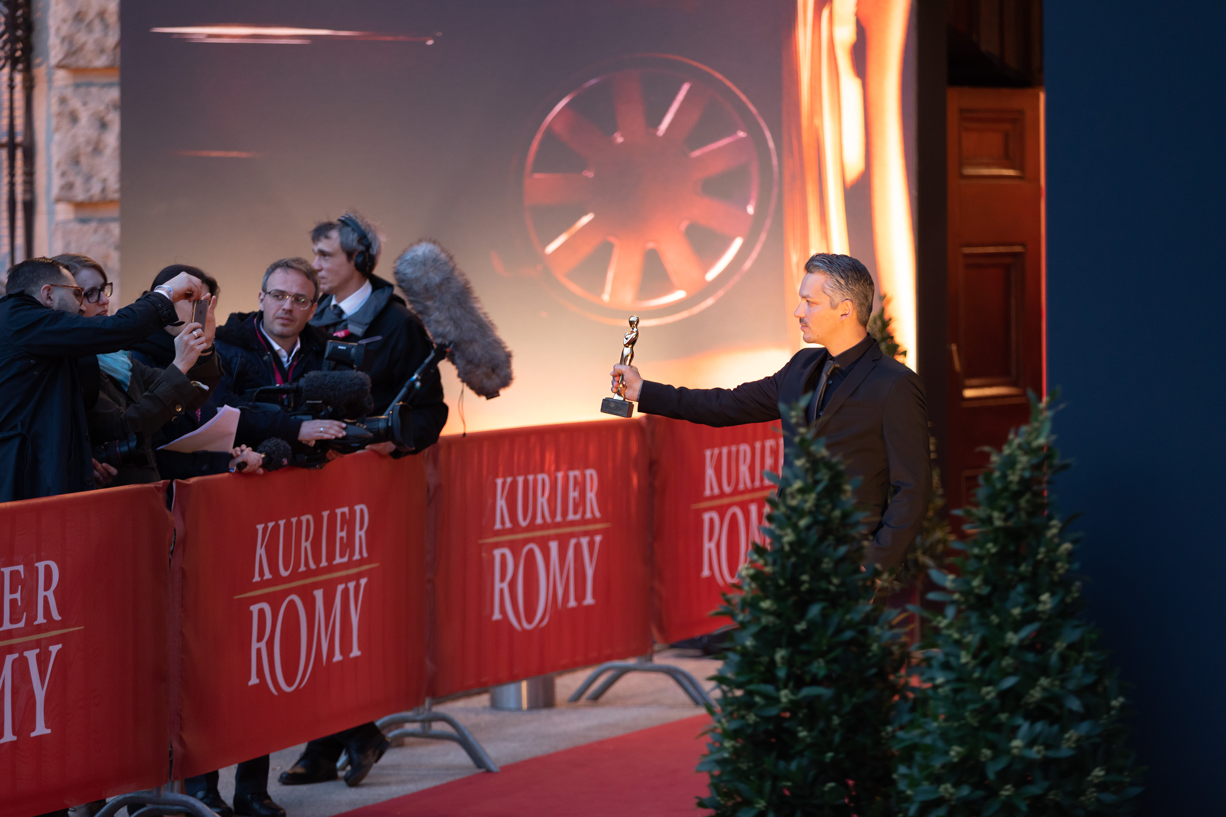 Faris Rahoma on the red carpet of the Romy TV awards 2018 at Hofburg Palace in Vienna, Austria.